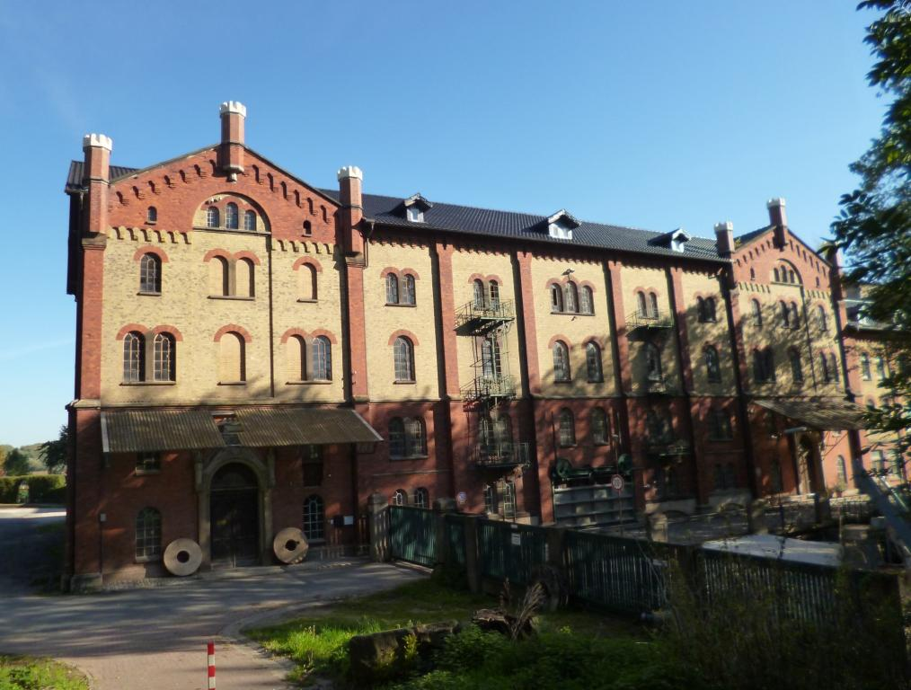 Banteln, Bennigsen mill